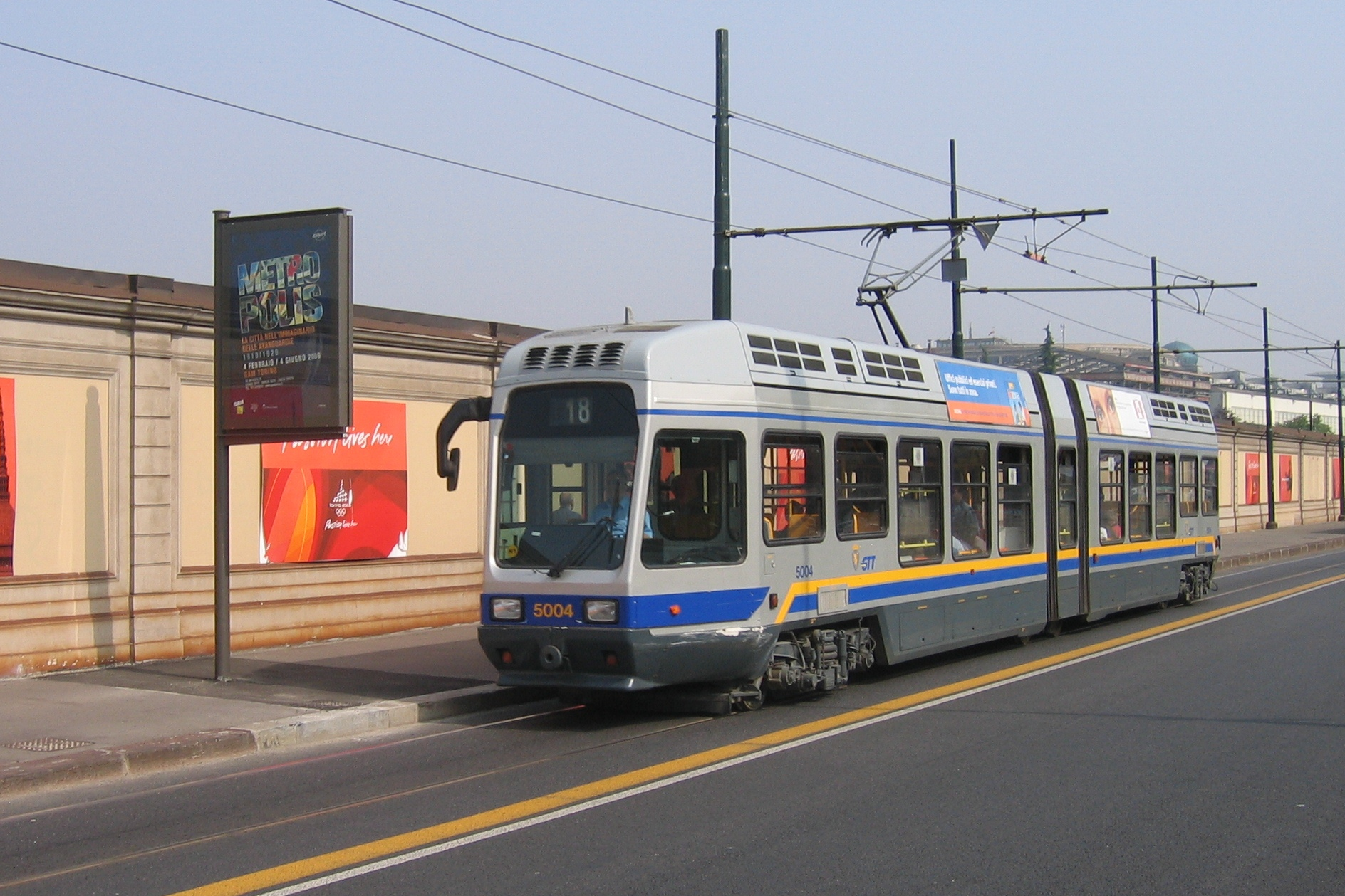 GTT Torino tram vehicle 5004 on line 18